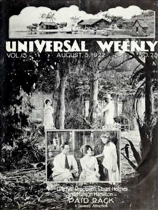 Still from the American melodrama film Paid Back (1922) with Gladys Brockwell, Mahlon Hamilton, and Stuart Holmes, on the cover of the August 5, 1922 Universal Weekly.